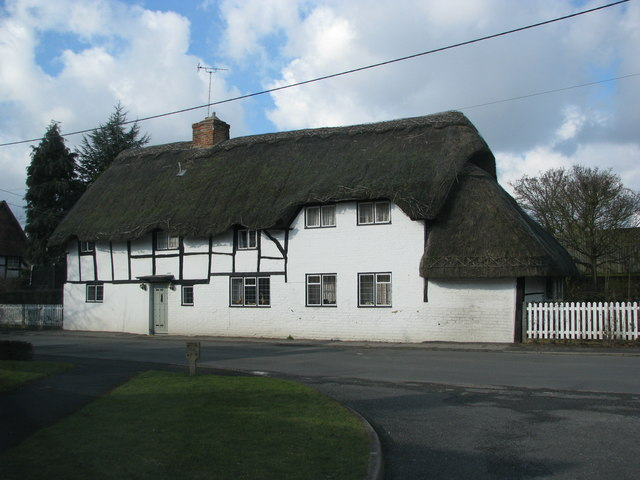 Thatched cottages in East Hagbourne, Oxfordshire (formerly Berkshire)